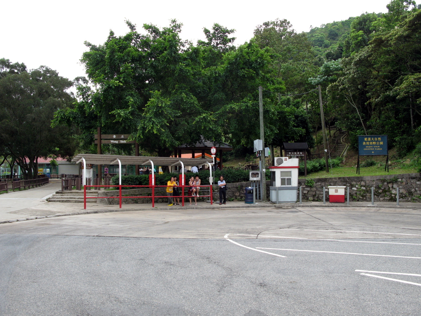 The bus terminus at Wong Shek Pier on the Sai Kung Peninsular in the north-eastern New Territories of Hong Kong. For more information, see Wikipedia article Wong Shek Pier.